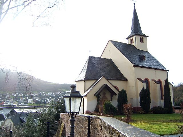 Church in Igel, Rhineland-Palatinate, Germany